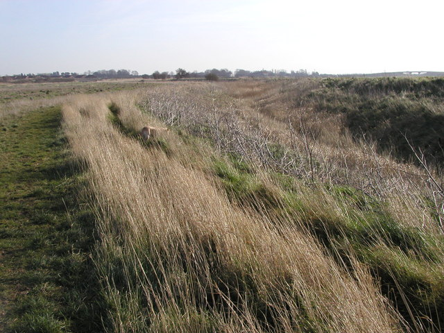 Hedon Haven, east of Salt End, East Riding of Yorkshire, England.This is all that remains of the Hedon Haven - a former navigable waterway from the River Humber to the old port of Hedon. Hedon was a port long before its much larger neighbour, Hull was. The Haven silted up badly and became unavigable and was filled in completely in places in the late 1970s. This is the view looking eastwards about halfway along its length between the River Humber and Hedon - a distance of about two miles altogether.